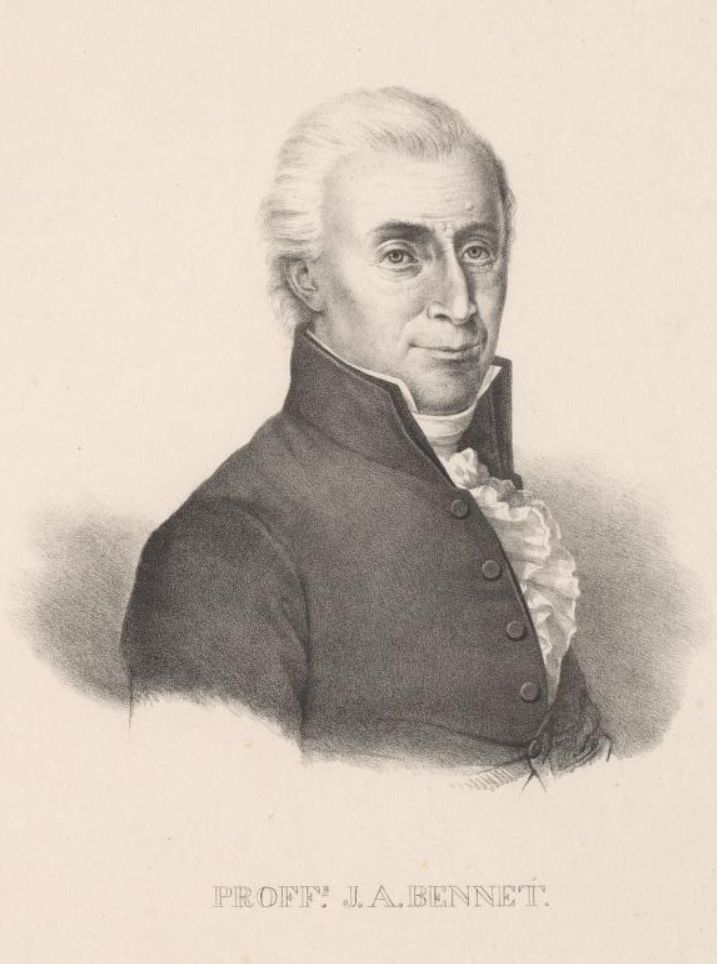 Prof. J.A. Bennet